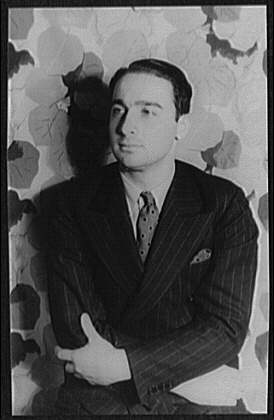 Title: Portrait of Alfred A. Knopf, Jr. (Pub.) Abstract/medium: 1 photographic print : gelatin silver.